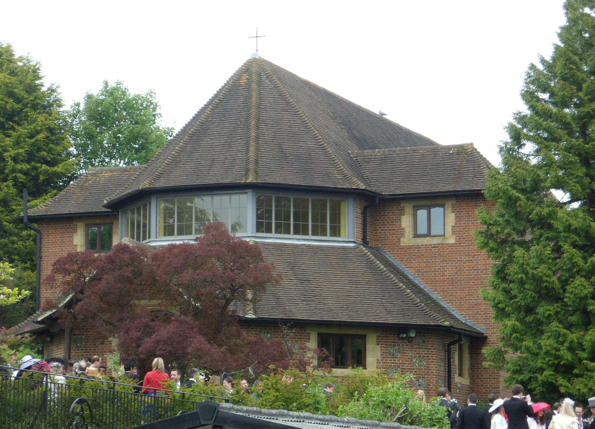 All Saints Church, Chichele Road, Oxted, Tandridge District, Surrey, England. The Roman Catholic parish church of Oxted. Listed at Grade II by English Heritage (NHLE Code 1245423)